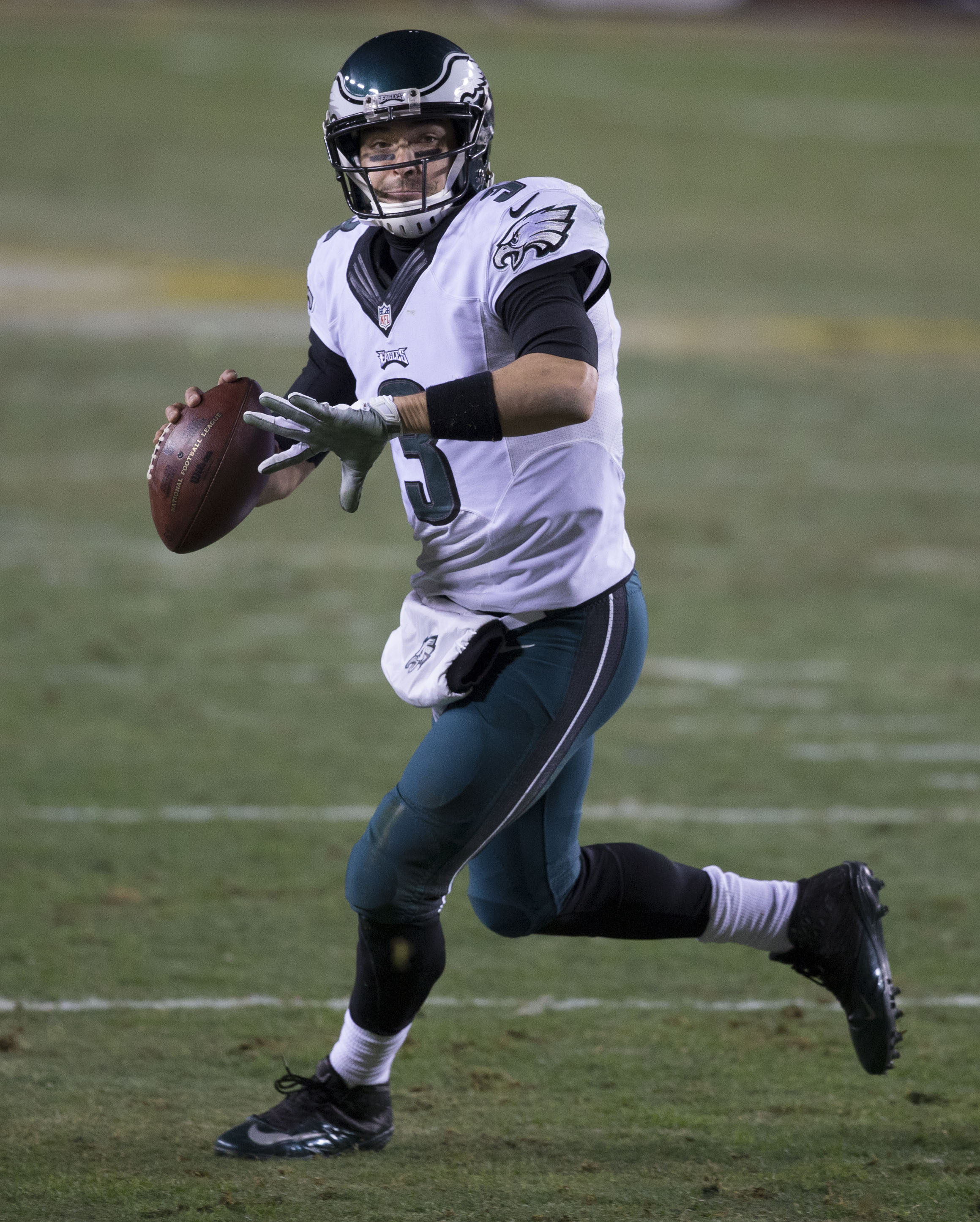 Eagles at Redskins 12/20/14